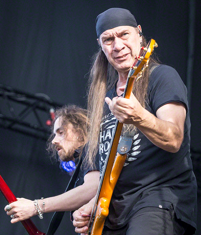 Morten Skaget performs with Åge Aleksandersen and Sambandet at the main stage during Stavernfestivalen in Stavern on 08 July 2016. Lineup:Åge Aleksandersen (guitar / vocal)Skjalg Raaen (guitar)Steinar Krokstad (drums)Morten Skaget (bass)Gunnar Pedersen (guitar)Terje Tranaas (keyboard)Bjørn Røstad (baritone saxophone)Unidentified (trumpet)Unidentified (trombone)Unidentified (tenor saxophone)